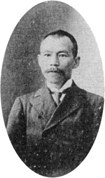 Michitada Kawakita, Director of Koshu Gakko.